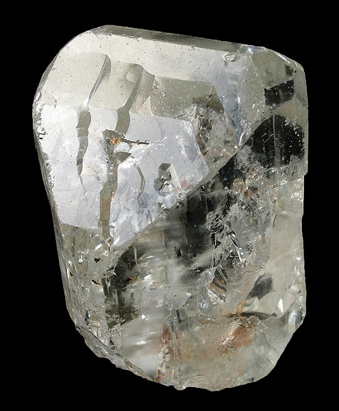 Topaz Locality: Nova Era, Iron Quadrangle, Minas Gerais, Southeast Region, Brazil (Locality at ) Size: 4.1 x 3.7 x 3.1 cm. A very gemmy, lustrous, and transparent topaz crystal from a classic locale. It has several small inclusions we cannot identify offhand. Weighs 79 grams.